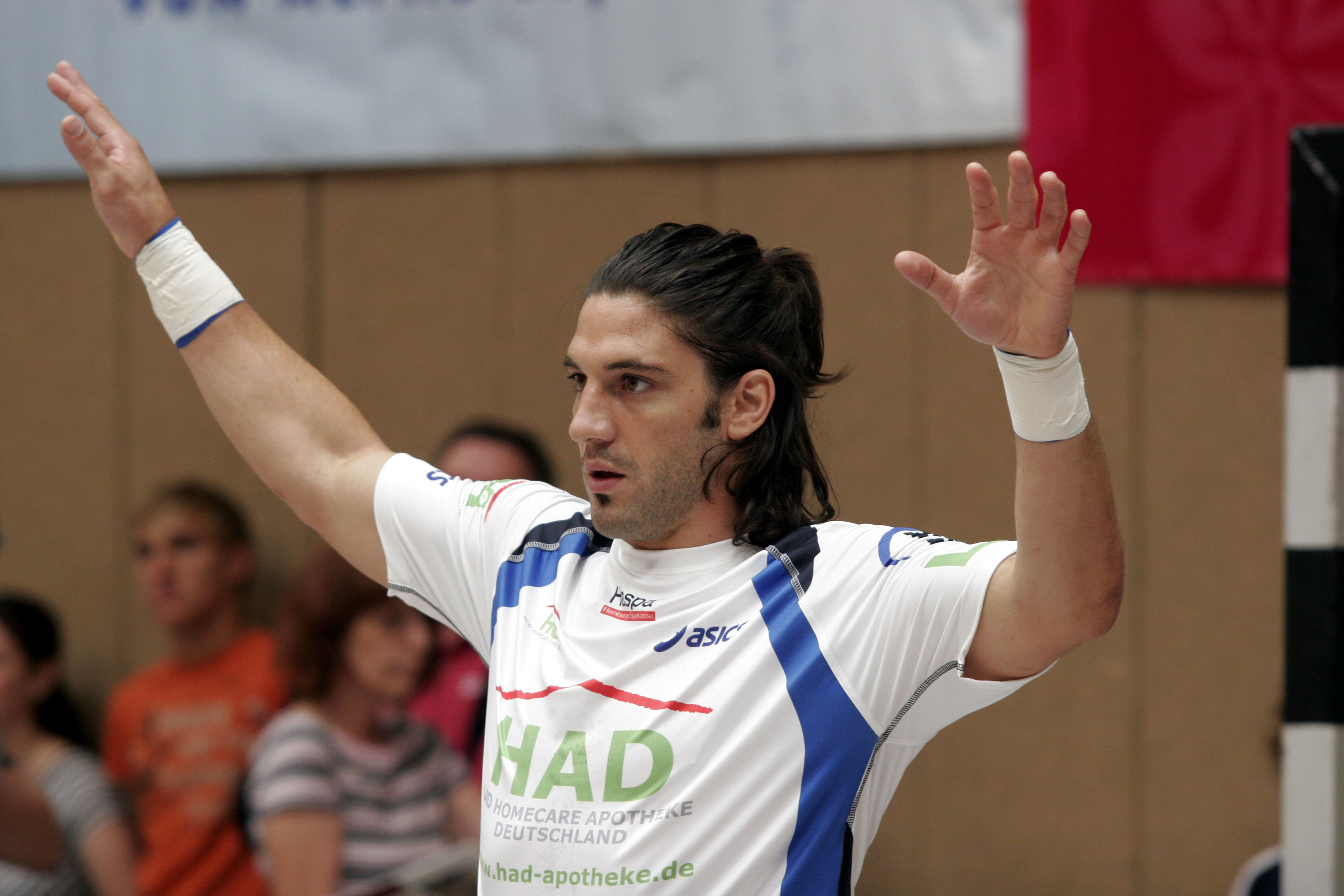 Bertrand Gille, the French handball player from HSV Hamburg, during the Schlecker Cup 2007 in Ehingen (Germany)